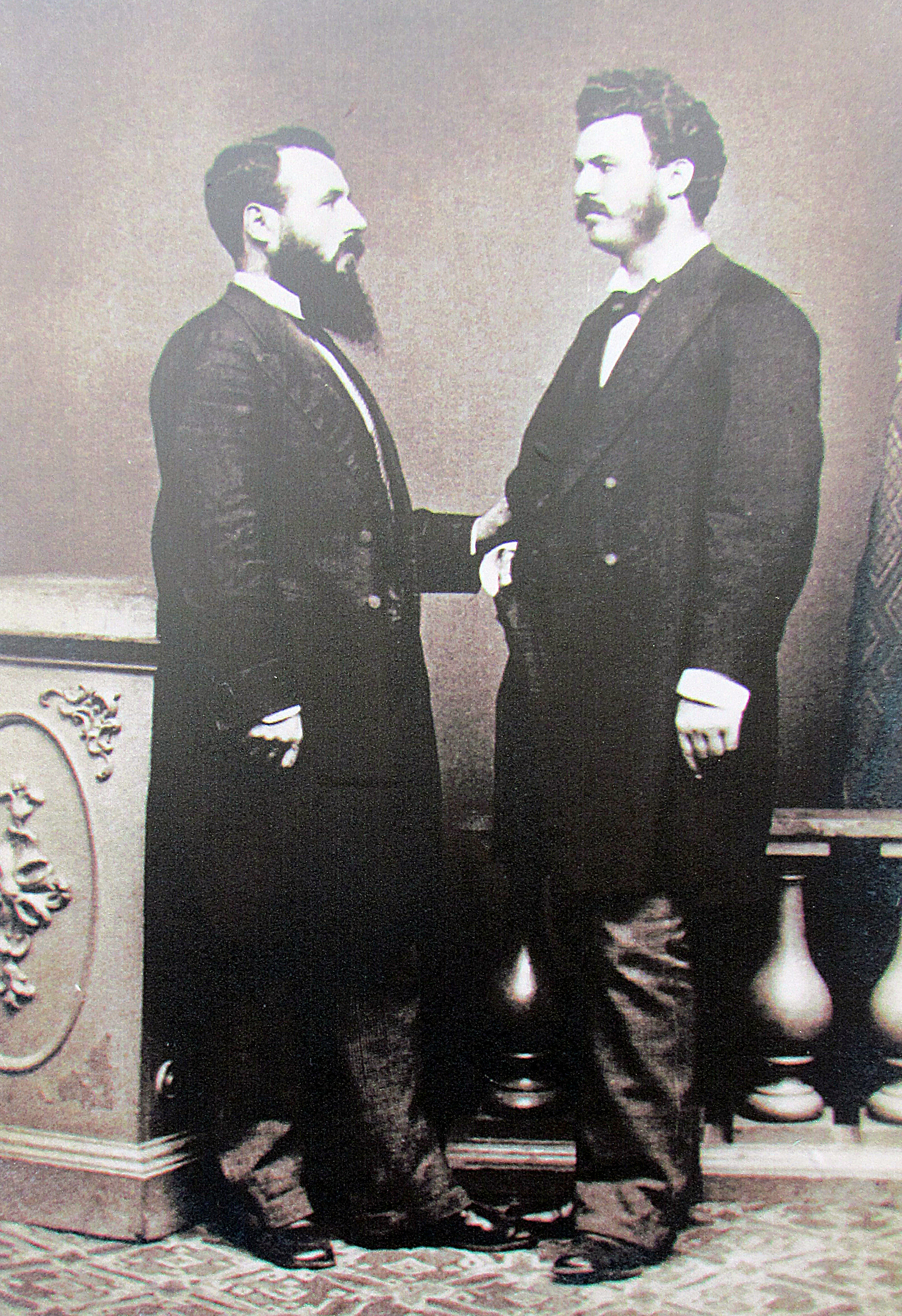 Nikola Pasic and Kosta Tausanovic, leaders of Serbian Radical political party